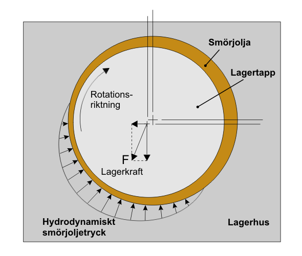 Plain bearing with hydrodynamically created pressure in lubrication oil.